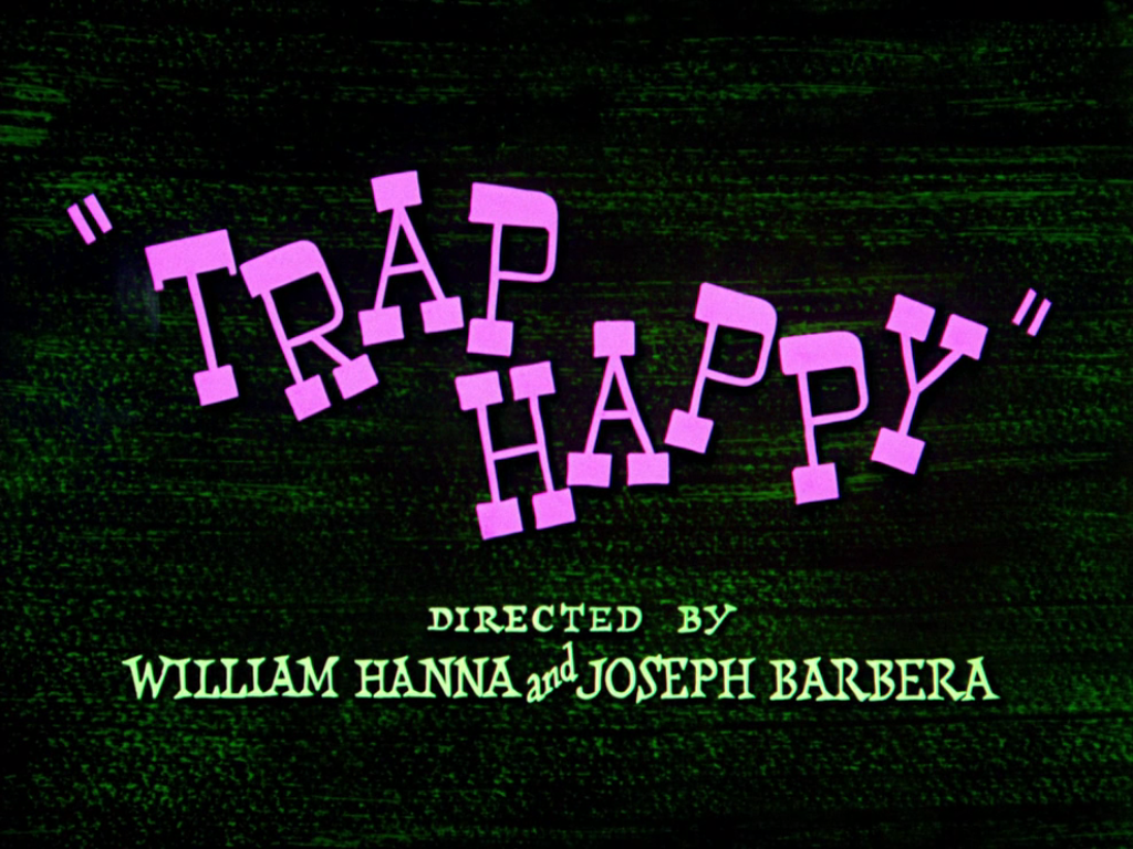 Trap Happy title card